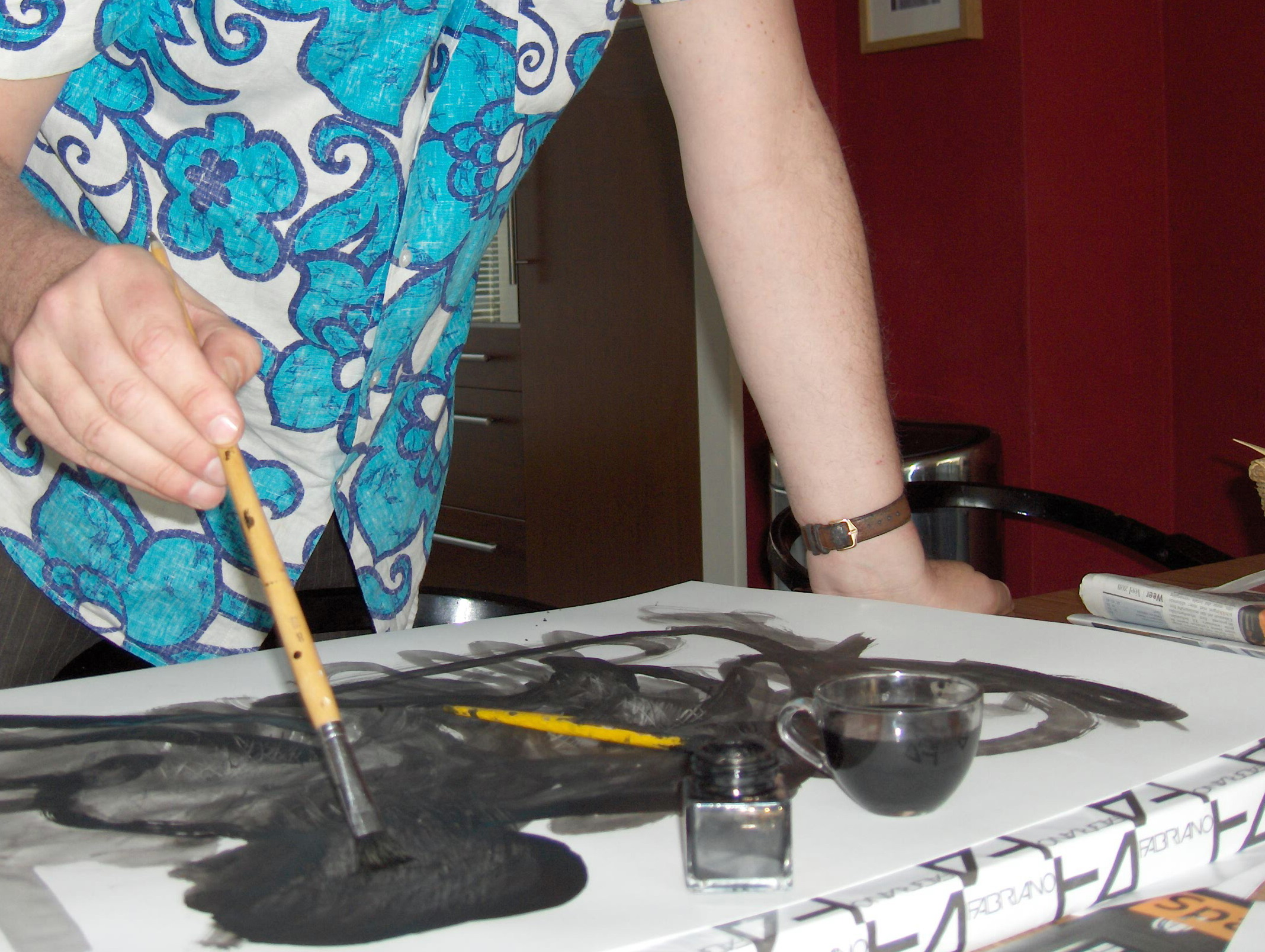 Drawer (artist) at work.